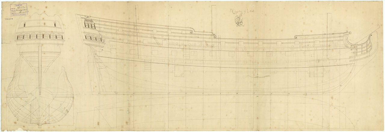 Kingston (1719) Scale: 1:48. Plan showing the body plan, stern board outline with some detail, sheer lines with inboard detail, and a basic longitudinal half-breadth for Kingston (1719), a 60-gun Fourth Rate, two-decker. Signed by John Naish [Master Shipwright, Portsmouth Dockyard, 1715-1726 (died December)]. KINGSTON 1719